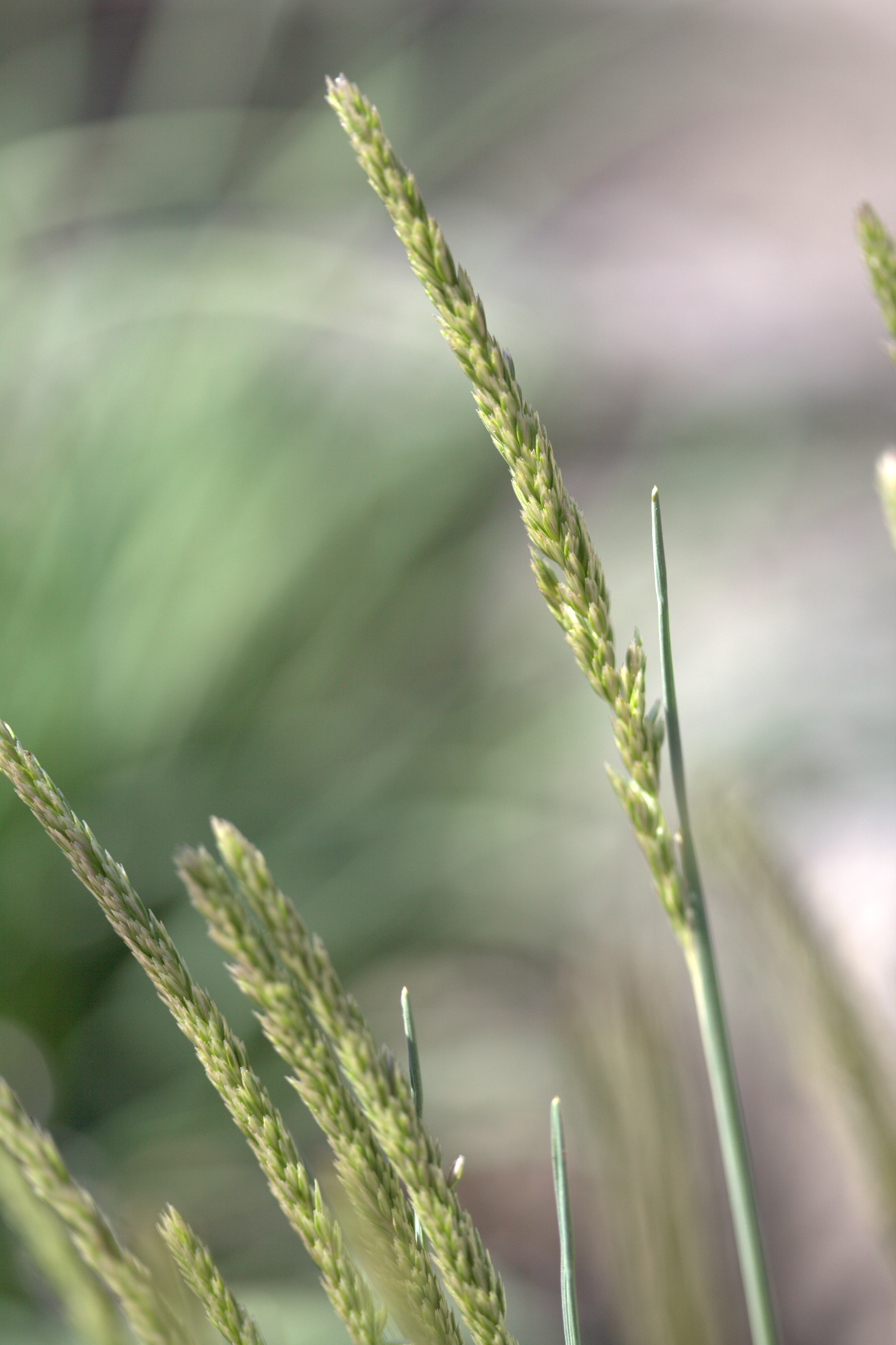 Photo taken at Gothenburg botanical garden. Specimen id: 2011-2178 s W Seed collected in 2011 from the wild (Aarhus)